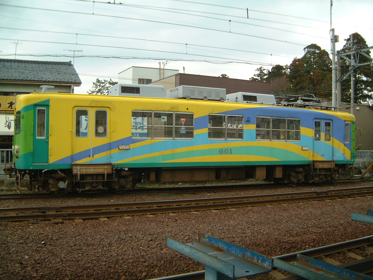 Fukui-tetsudo type600(Japan). This photo is the one when is taken into custody at the Shinmei station.（福井鉄道600形電車画像（601号）。神明駅の留置線に置かれている時の様子）